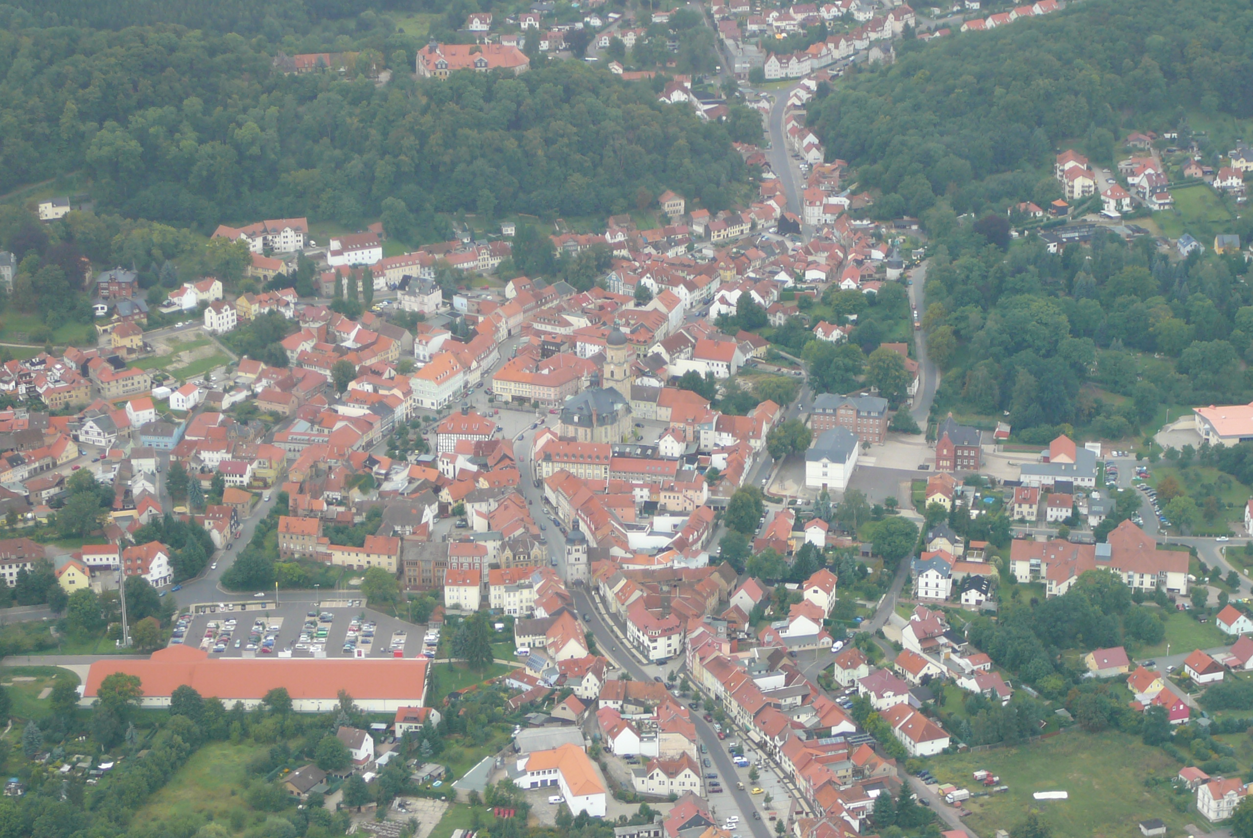 Aerial view of the town centre of Waltershausen, Germany.